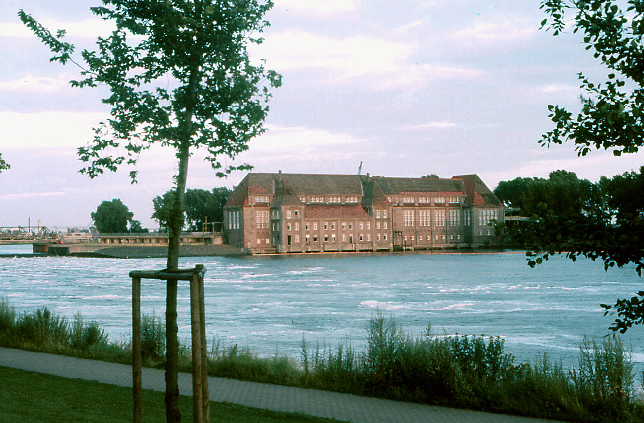 the old weir of river Weser in Bremen with an hydo-elektric power station, built in 1911, pulled down around 1990